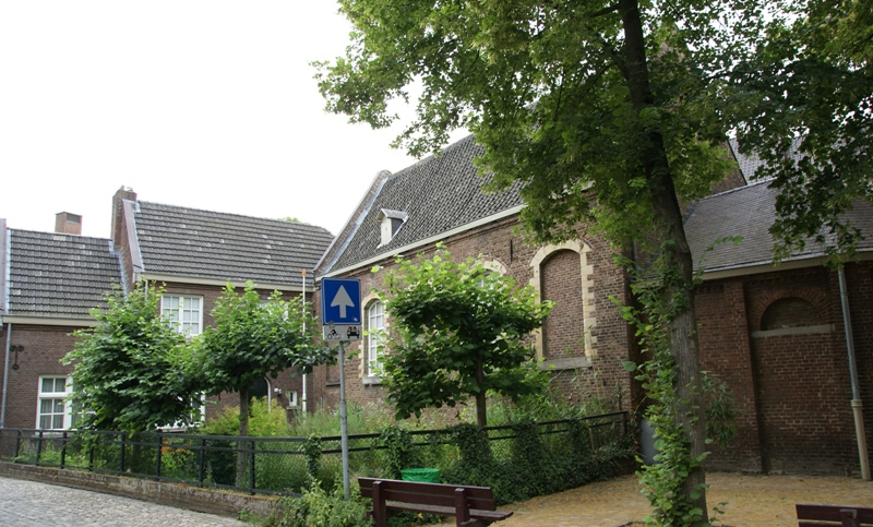 National monument no. 26817 - De Bosquetplein 6, Maastricht, The Netherlands